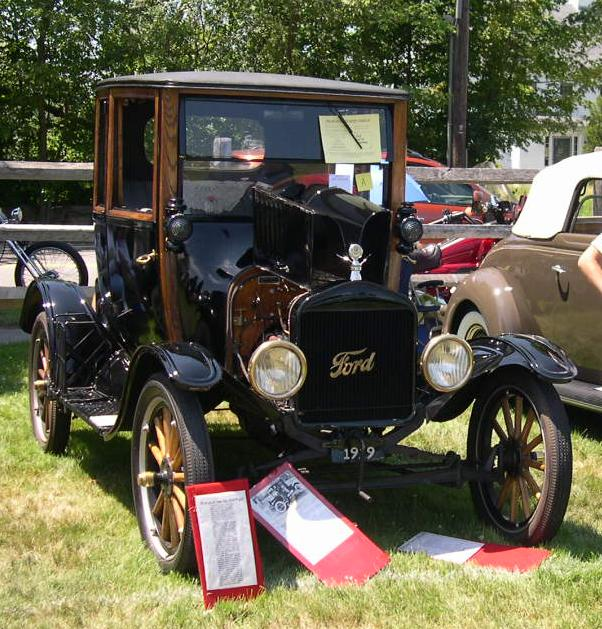 1919 Ford Model T Highboy Coupe Source: Photographed at the Bay State Antique Automobile Club's July 10, 2005 show at the Endicott Estate in Dedham, MA by User:Sfoskett